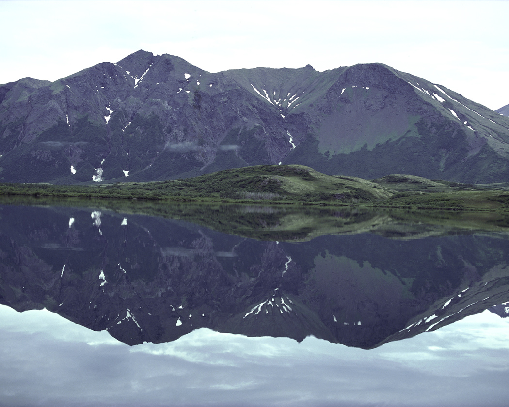 view of the Ahklun Mountains reflected in mirror-smooth Upper Togiak Lake.[1]